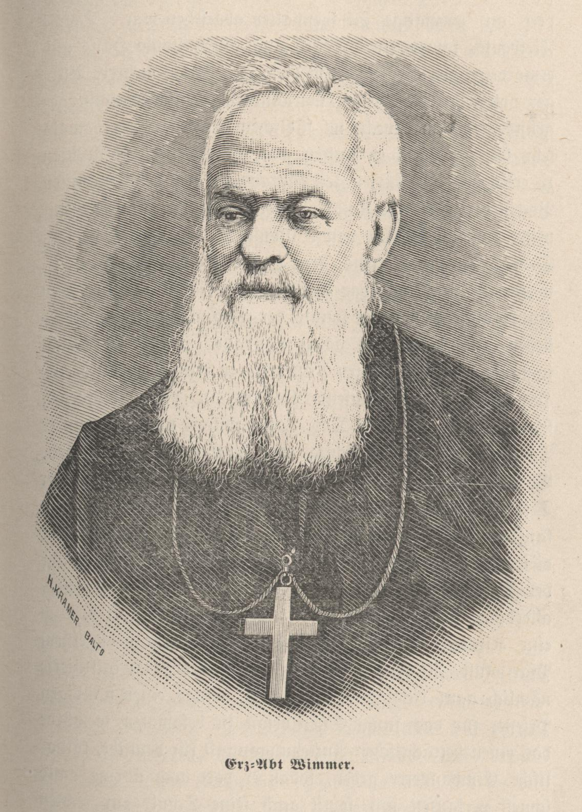 Bonifaz Wimmer OSB, Archabbot of Saint Vincent, Latrobe, USA and former monk of Metten Abbey, Bavaria, Germany